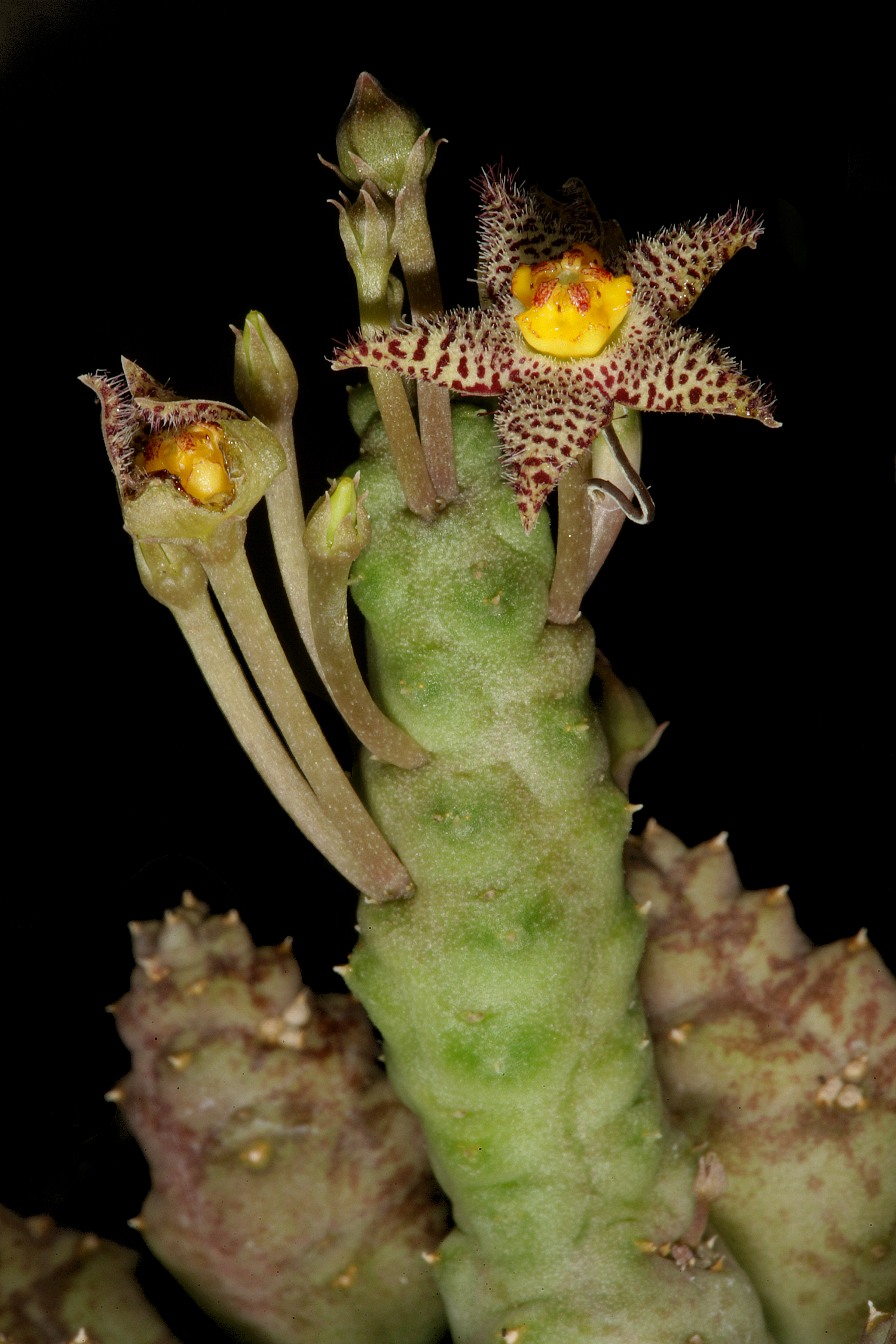 Piaranthus comptus, flowers; Manie van der Schijff Botanical Garden, University of Pretoria, Pretoria, Gauteng, South Africa